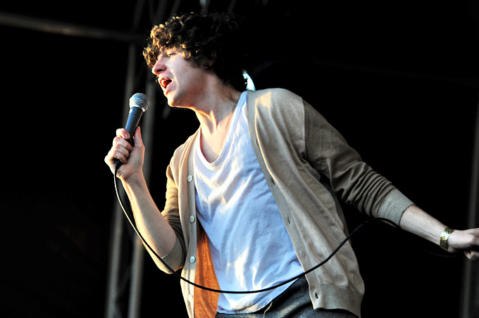 Southbound Festival 2012